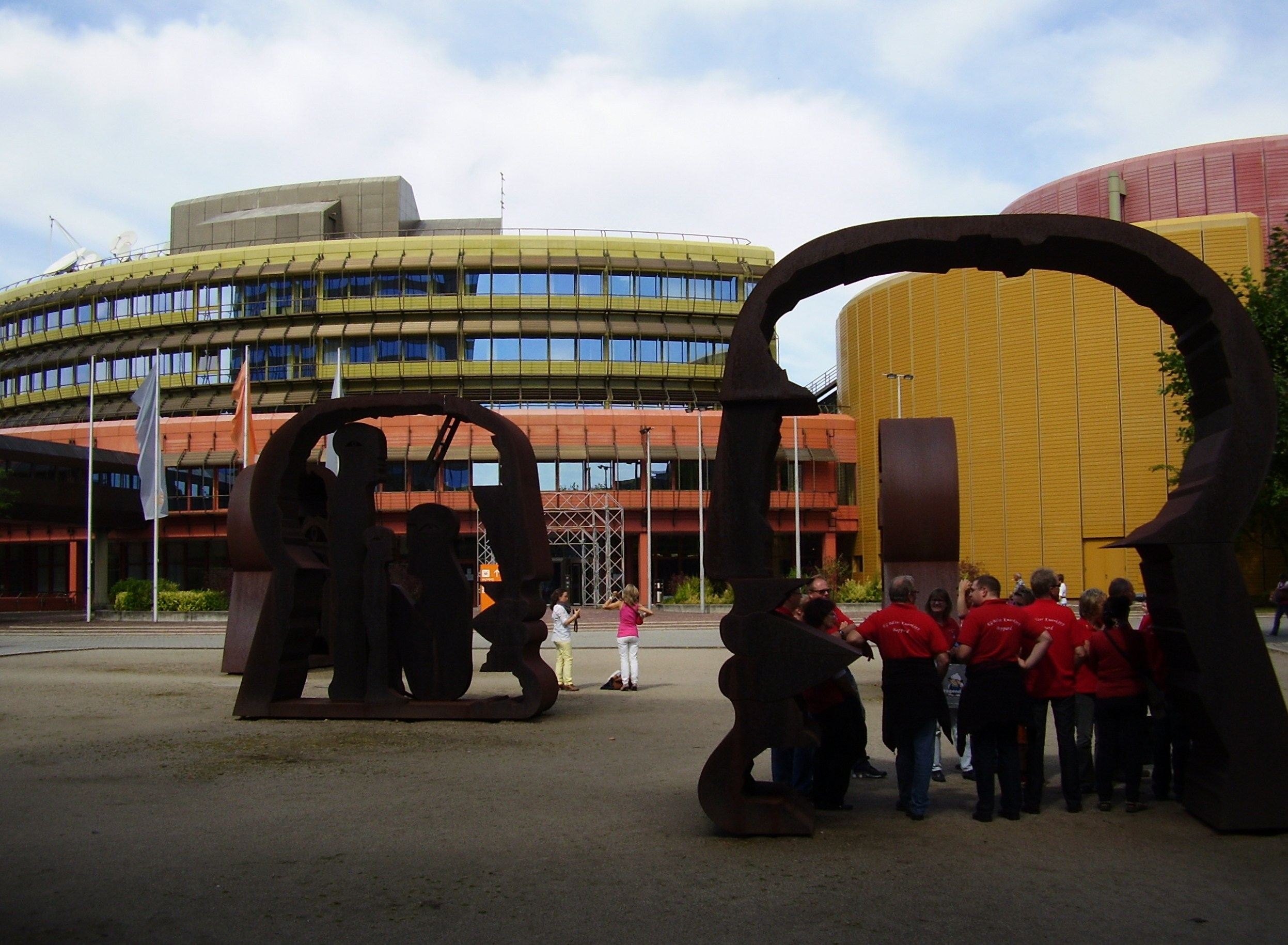 ZDF broadcasting center 1, Mainz-Lerchenberg, Germany.